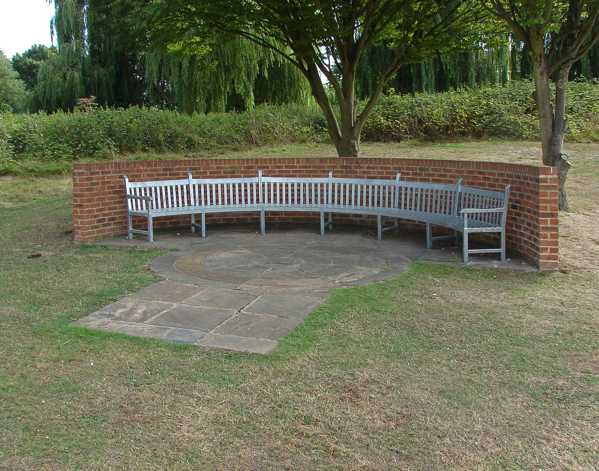 Monument in Staines-upon-Thames, Surrey, to the 1972 Trident air crash